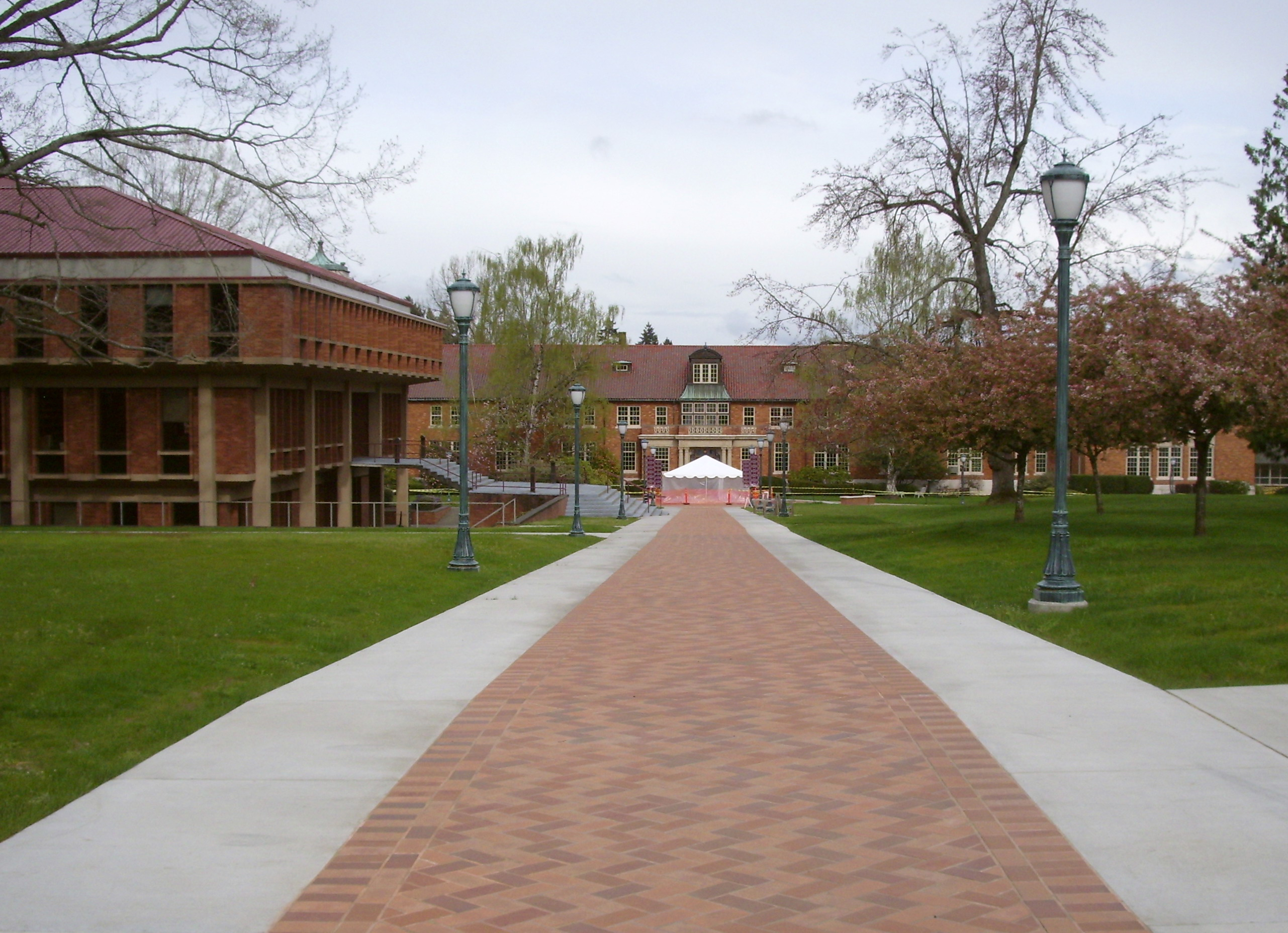 Main walkway from the chapel at Marylhurst University. The white tent at center protects temporary earthworks construction.